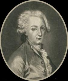 Charles Auguste Boehmer (? - Stuttgart, 1794)